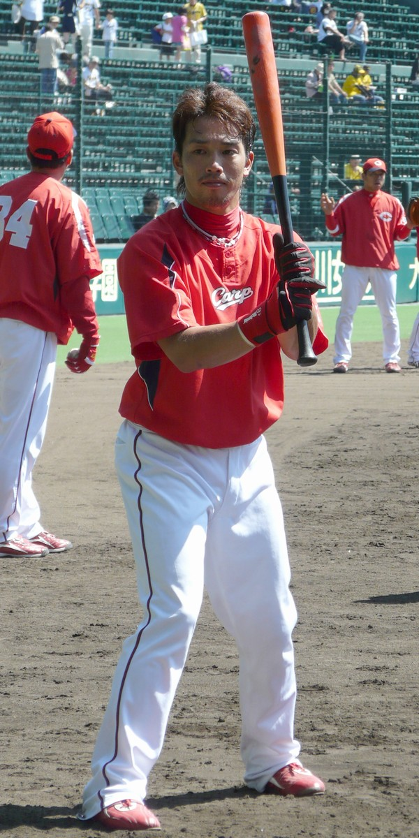 Sohichiro Amaya, outfielder of the Hiroshima Toyo Carp, at Hanshin Koshien Stadium.